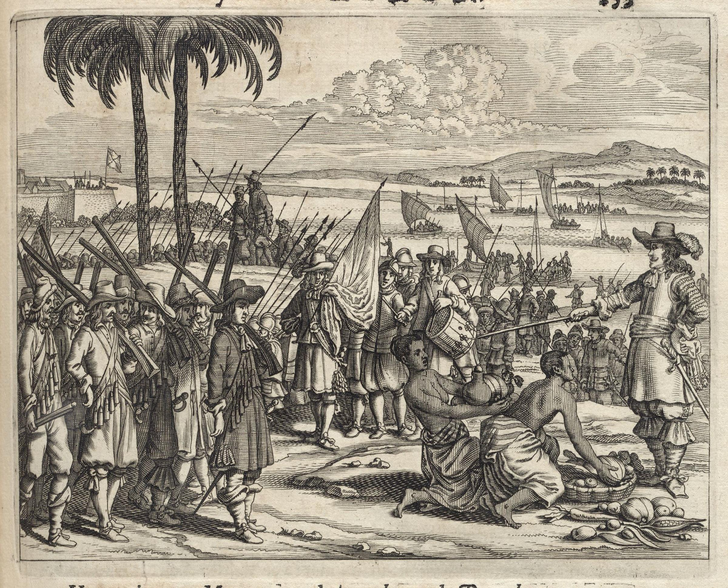 The conquest of Jaffnapatnam led by Van Goens in 1658. The city and the fort were captured from the Portuguese after a siege that lasted two months. The Portuguese flag has not yet been taken down from the fort.